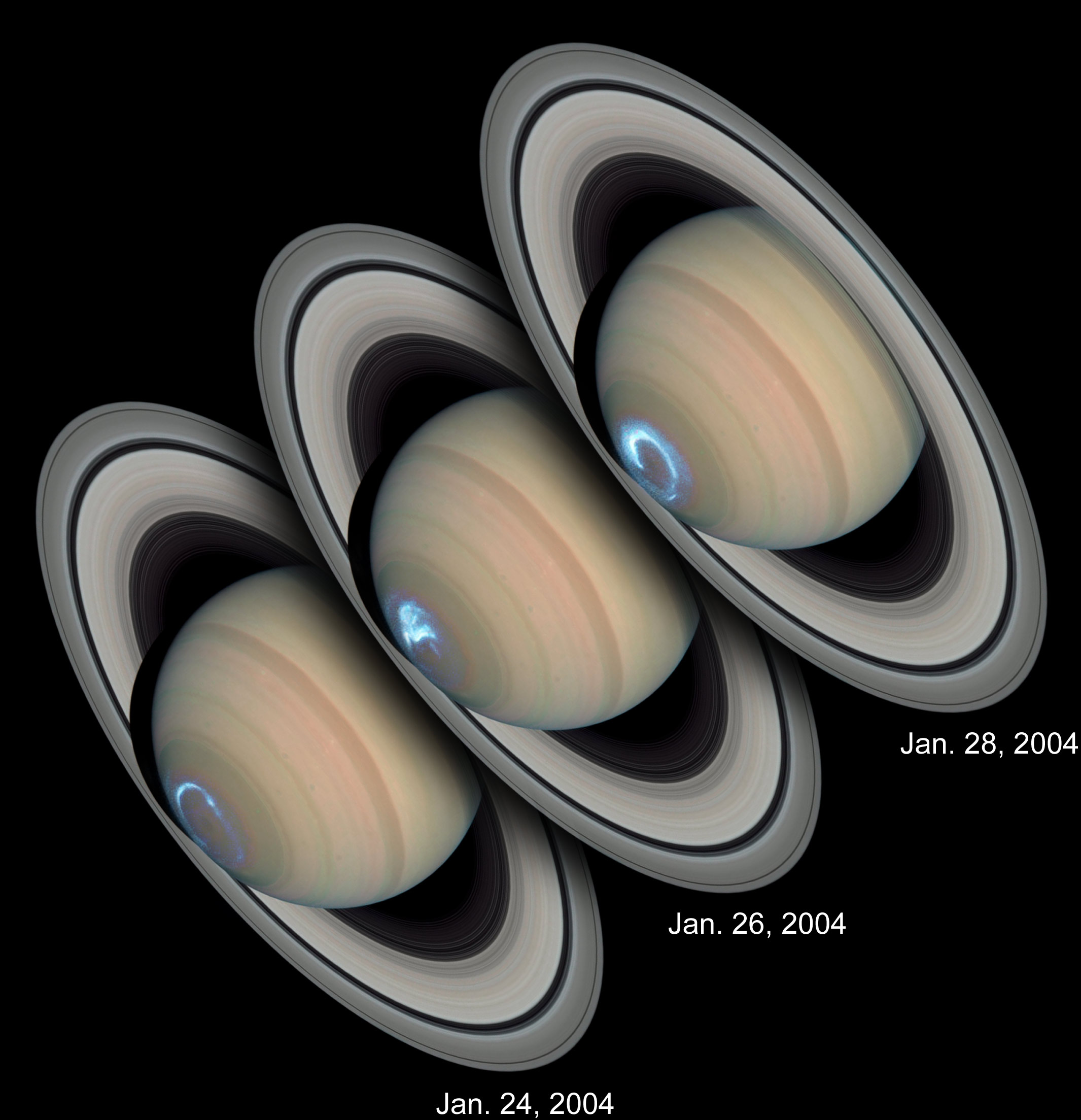 NASA image of Saturn with aurora, combined from separate shots of ultraviolet and visible light taken with the Hubble Space Telescope The ultraviolet images were taken in 2004 on January 24, 26, and 28 by Hubble's Space Telescope Imaging Spectrograph. Erich Karkoschka of the University of Arizona used the telescope's Advanced Camera for Surveys on March 22, 2004 to take the visible-light images.